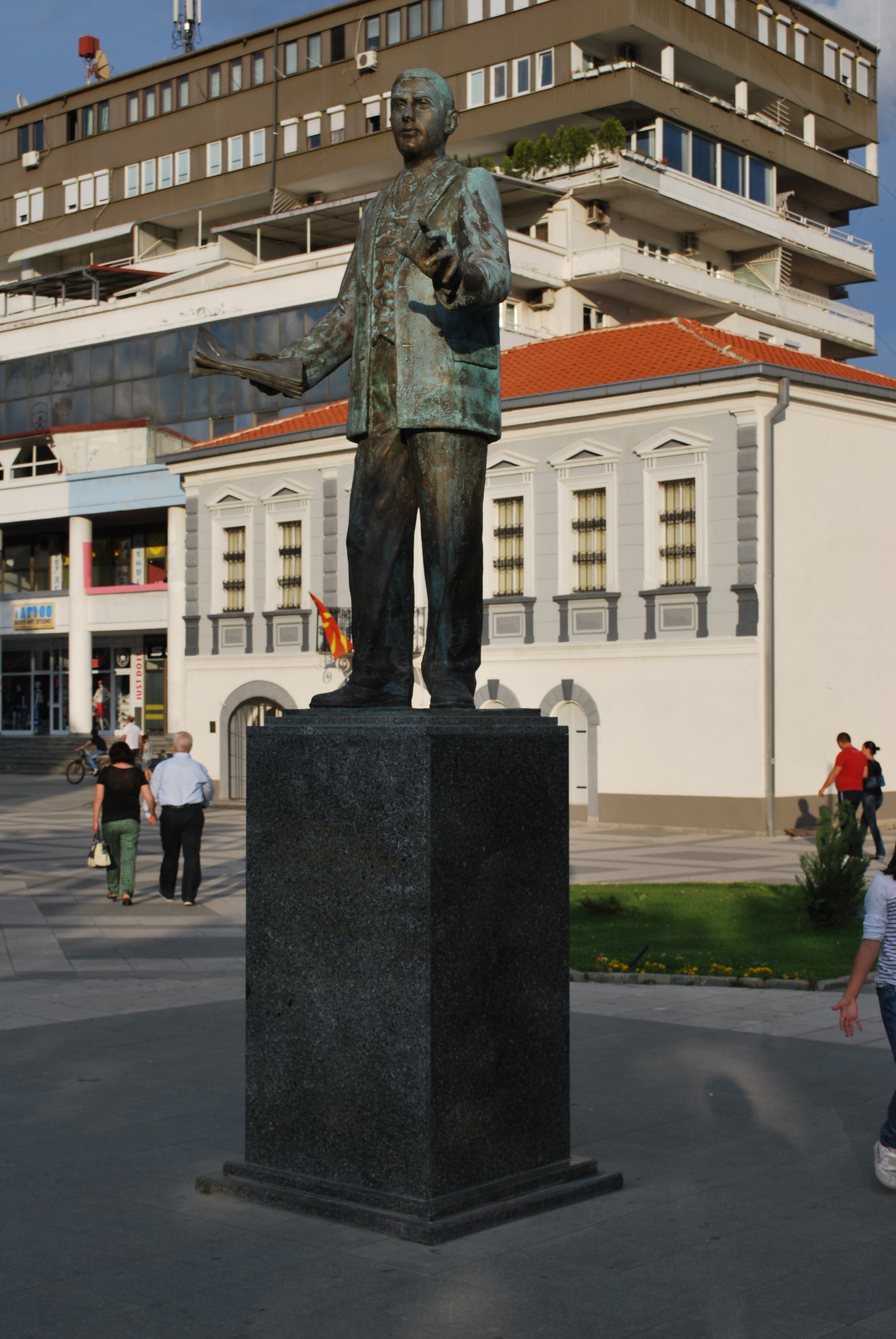 Monument of Kuzman Josifovski - Pitu in Prilep, Macedonia